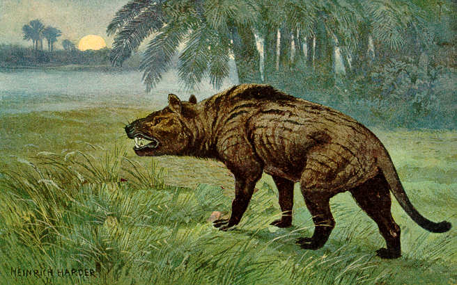 Hyaenodon was an extinct genus of Hyaenodonts